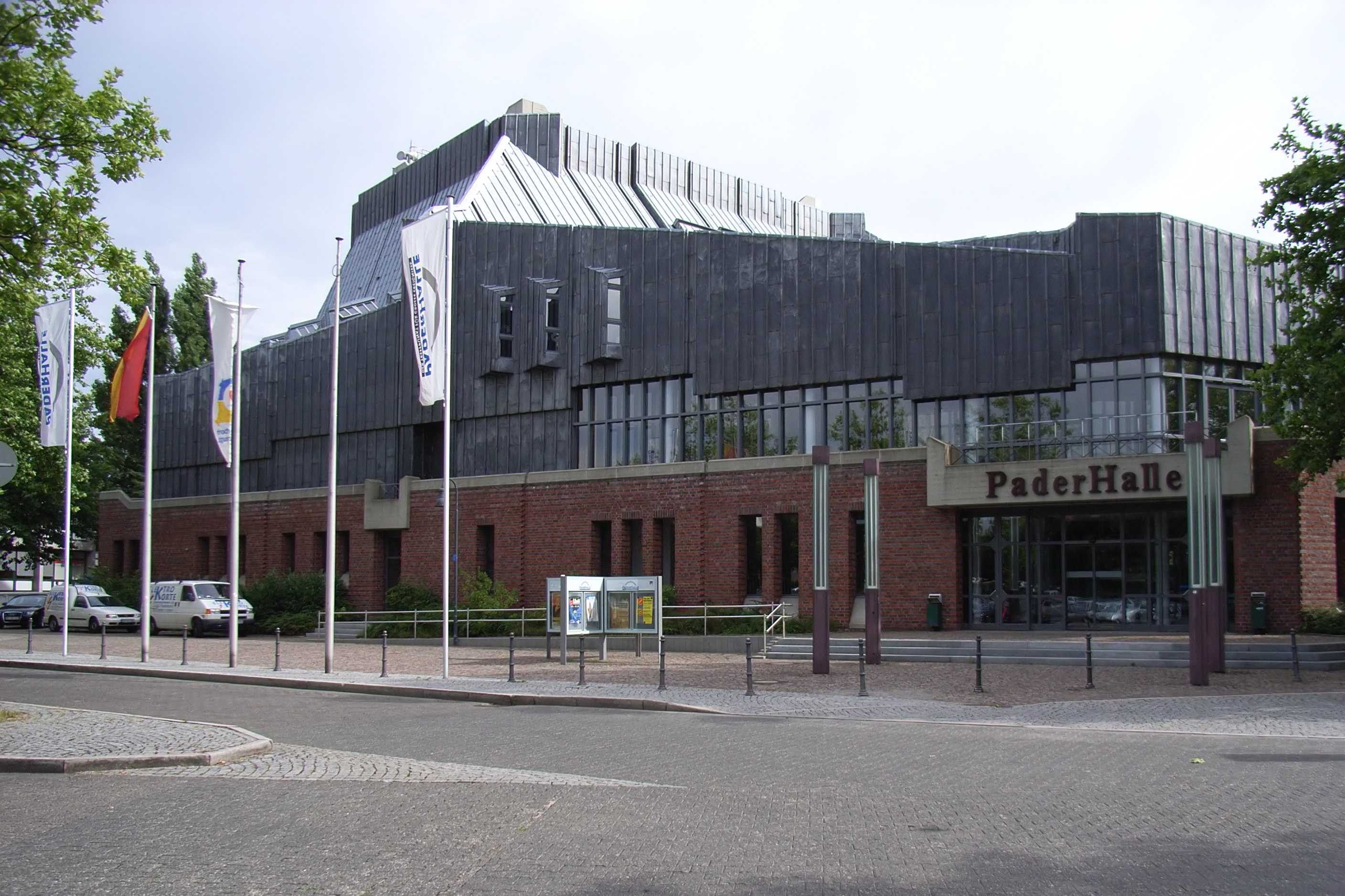 Paderborn, Germany: Paderhalle.